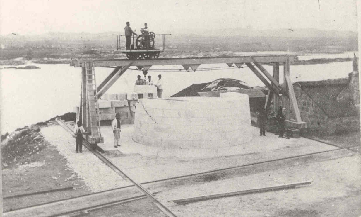 Fitting of the blocks for Dubh Artach lighthouse near the quarry on the island of Erraid in the Inner Hebrides of Scotland circa 1870.